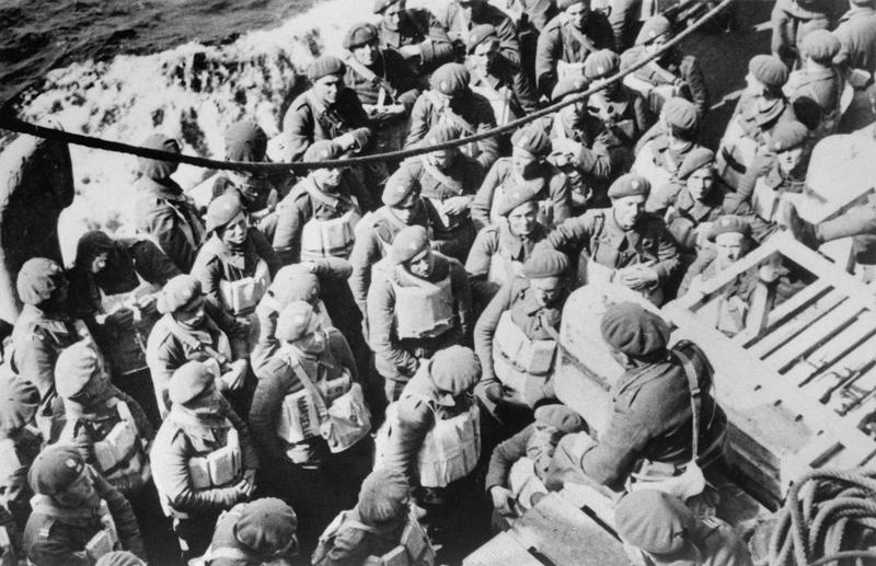 The Polish Army in Norway, 1940 Men of the Polish Independent Podhalan Rifles Brigade aboard a Norwegian coastal steamer during the campaign in Norway. The men on deck are taking orders from an officer, a lieutenant, who is seated right foreground. When the boat was sunk a few minutes later, the lieutenant was drowned, but most of the men were saved.